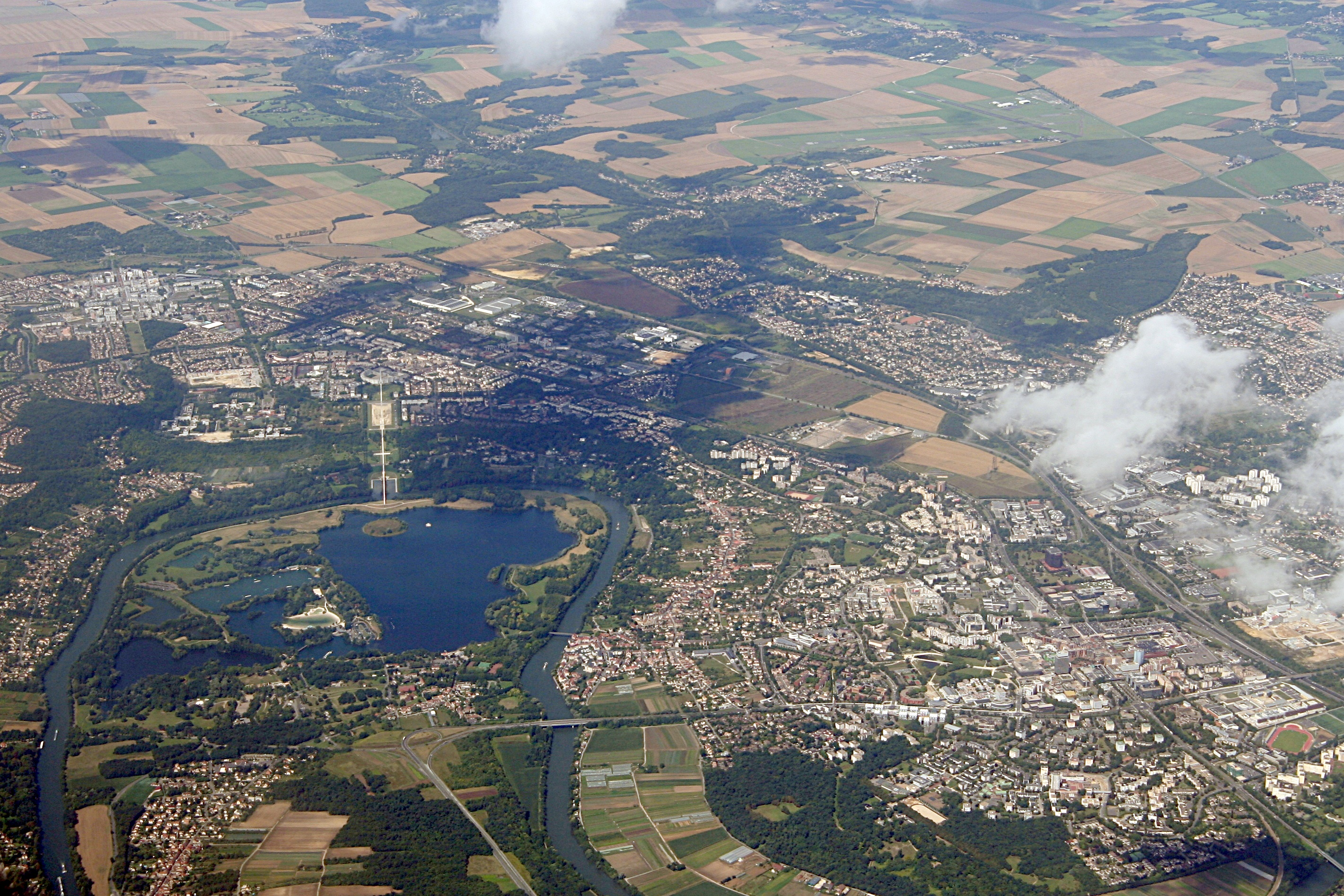 Aerial view of Cergy.